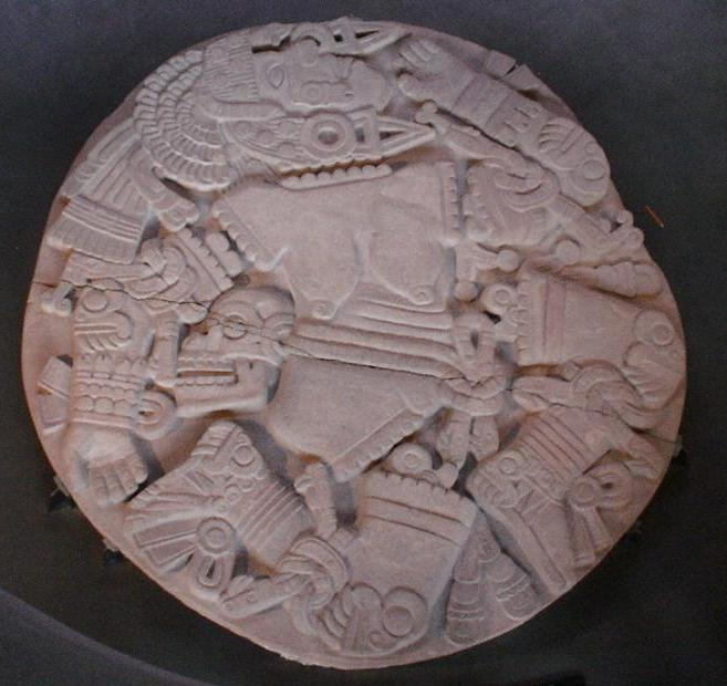 The Coyolxauhqui stone at Templo Mayor Museum, Mexico city.